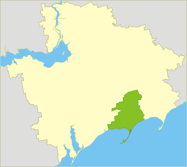 Контурная_карта_Приморского_района_Запорожской_области